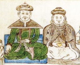 16th century painting of Abtai Sain Khan and his queen kept in the Zanabazar Museum of Fine Arts, Ulan Bator. This is a copy of the original painting at Erdene Zuu monastery in Harhorin, Mongolia which is one of the older examples of Mongol Zurag (Mongol Painting). Erdene Zuu Monastery was built by Abtai Khan (or Avdai Sain Khan, ᠠᠪᠲᠠᠶᠢᠰᠠᠶᠢᠨ ᠬᠨ, Автайсайн хан) in 1585.